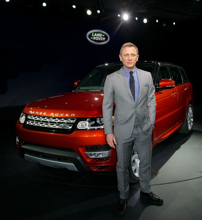 Daniel Craig at the unveiling of the all-new Range Rover Sport, revealed to the world today on the streets of New York, is the ultimate premium sports SUV - the fastest, most agile and responsive Land Rover ever.